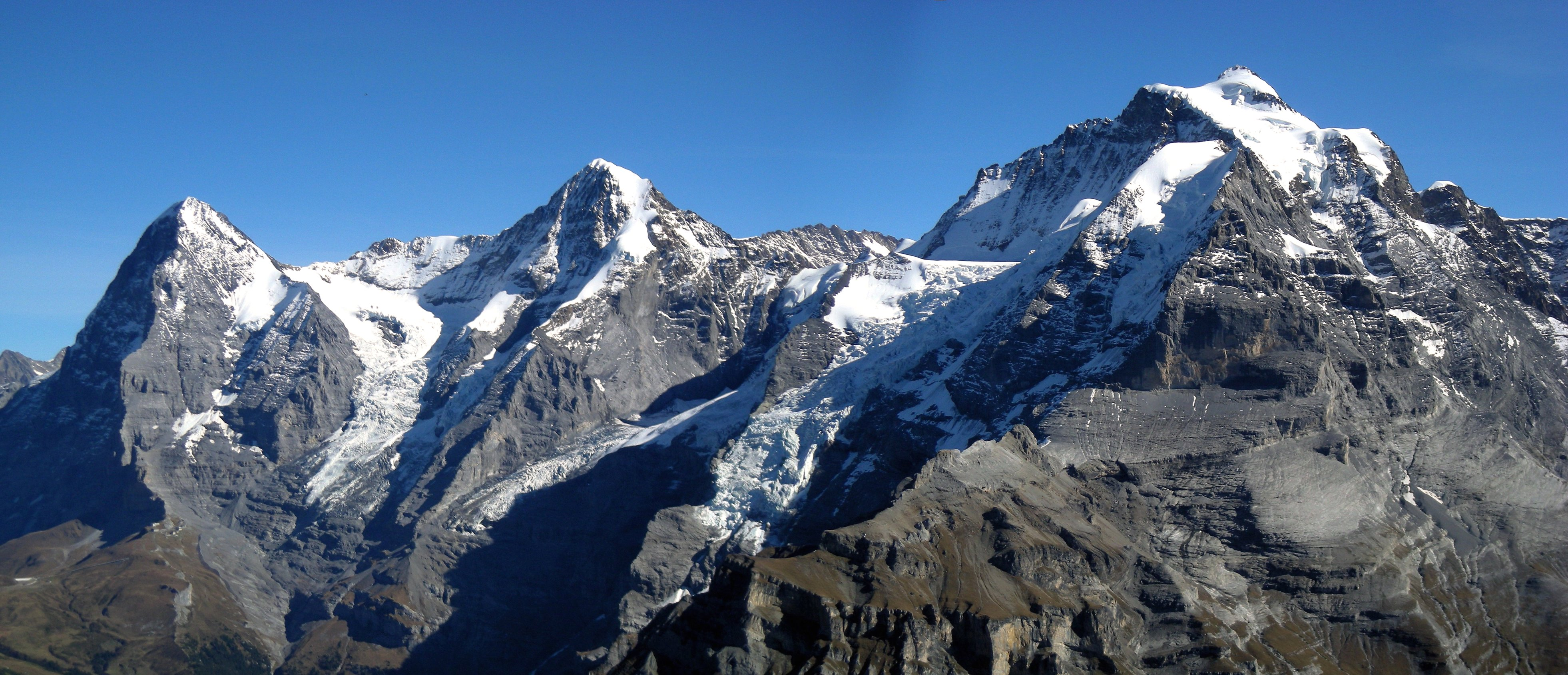 Eiger, Mönch and Jungfrau, Switzerland